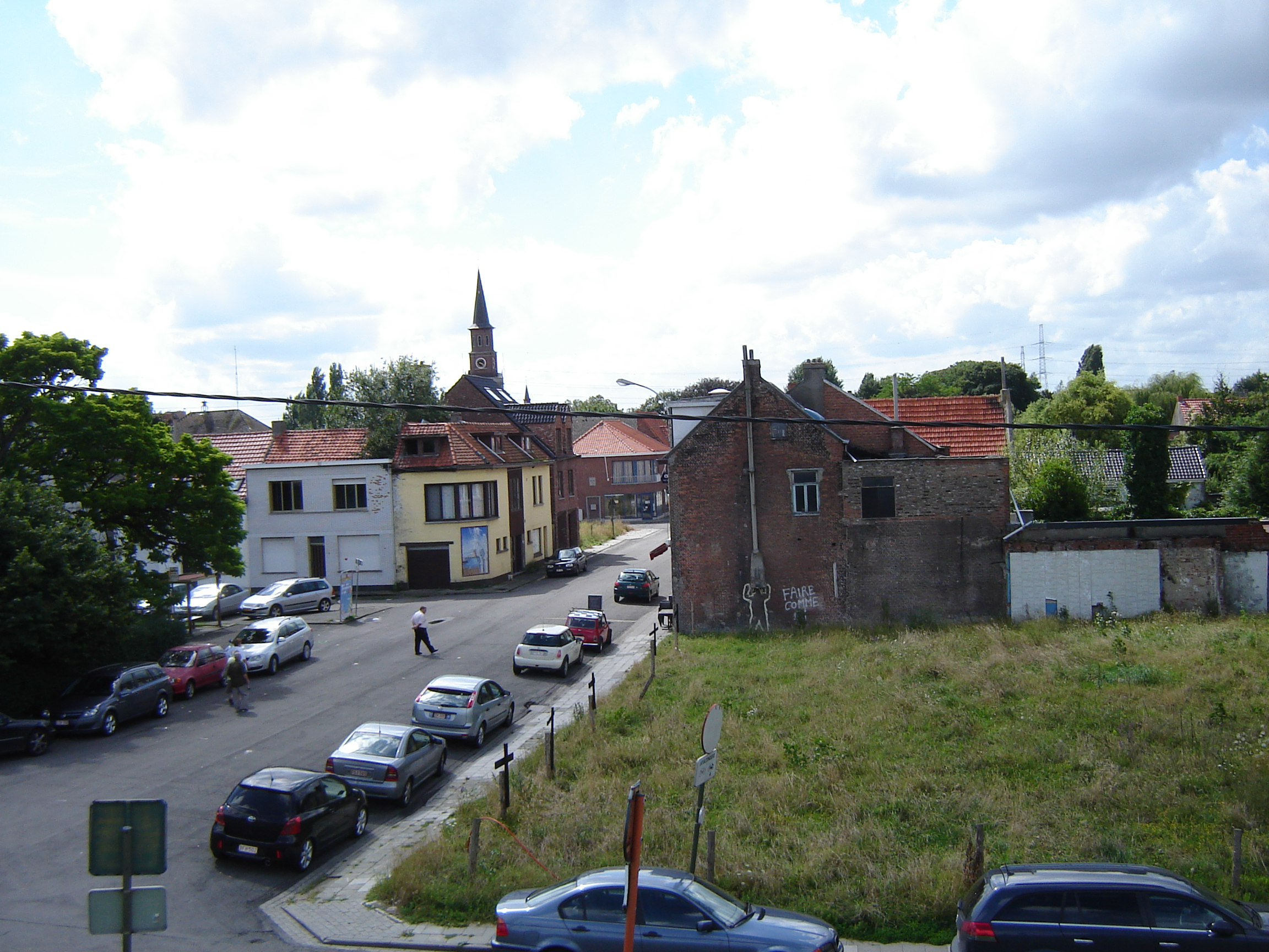 View on the town center of Doel, seen from the banks of the Scheldt. Corner of the Scheldemolenstraat and the Pastorijstraat. Doel, Beveren, East Flanders, Belgium